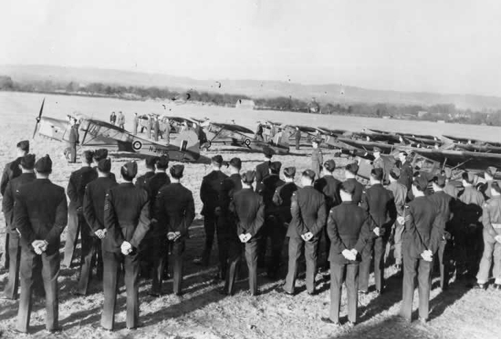 No 653 Squadron RAF and Army personnel on the occasion of the presentation of an aircraft in memory of Scottish aerial pioneer Bertram Dickson.